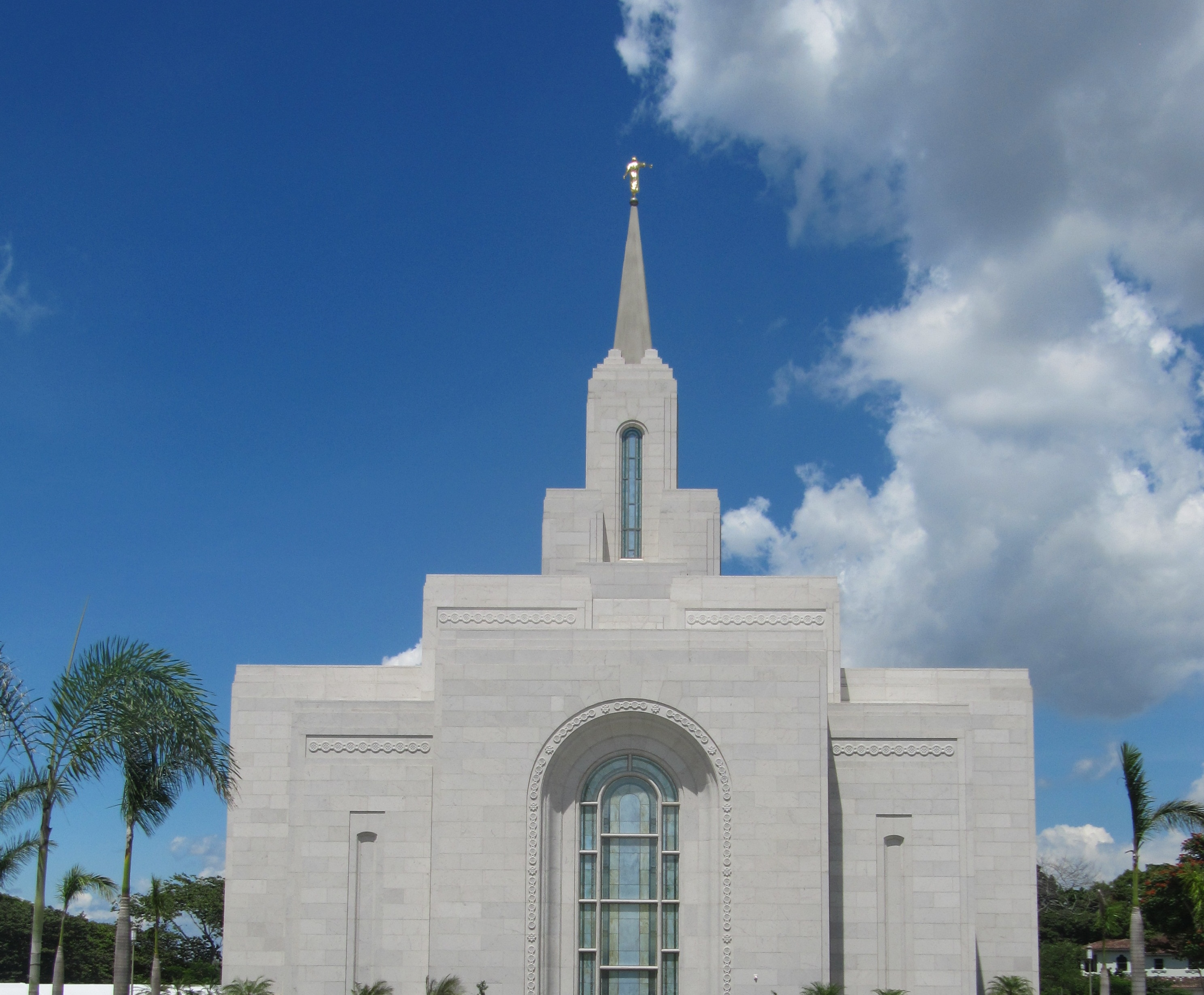 The San Salvador El Salvador Temple of The Church of Jesus Christ of Latter-day Saints.